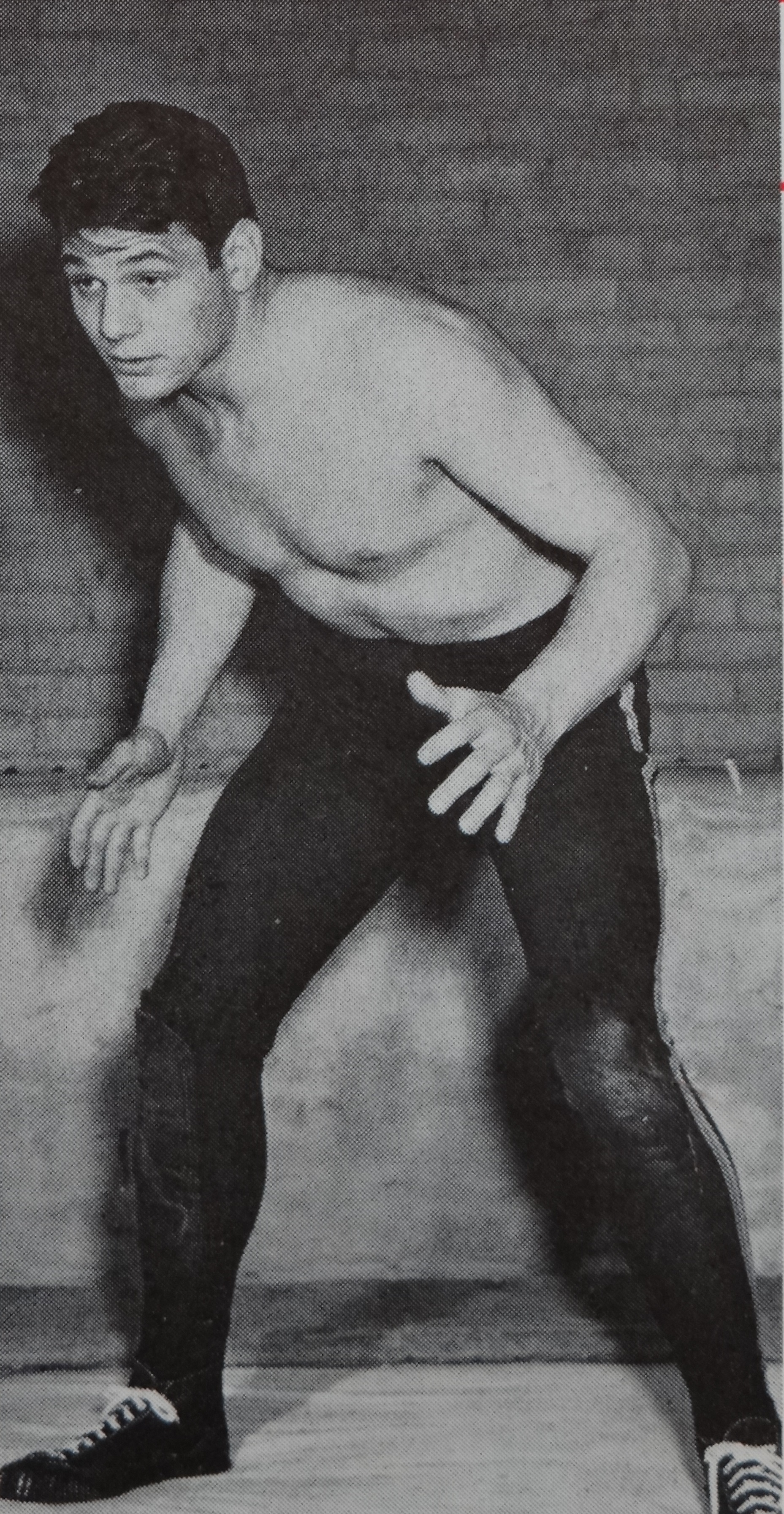 Photograph of University of Michigan football center and wrestler Dan Dworsky Photograph of University of Michigan football center and wrestler Dan Dworsky